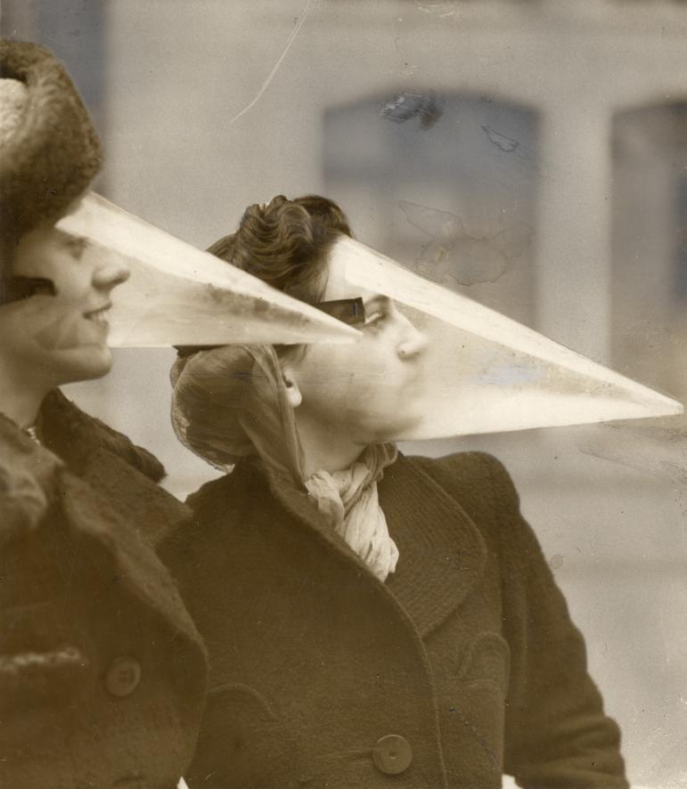 Plastic face protection from snowstorms. Canada, Montreal, 1939